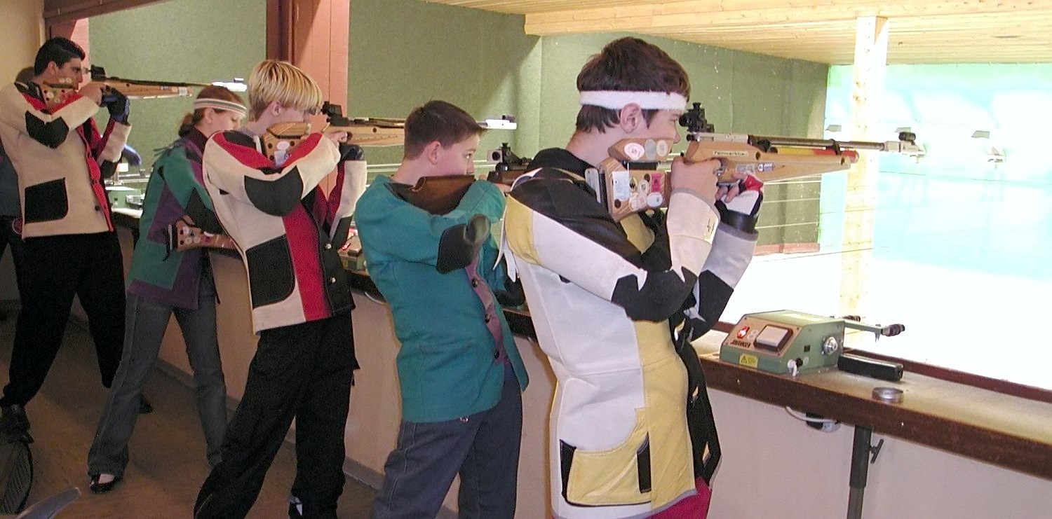 Sport-shooting with air-rifles 10m